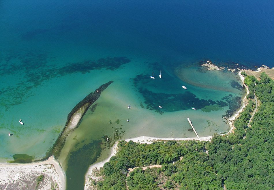 ropotamo beach,Primorsko